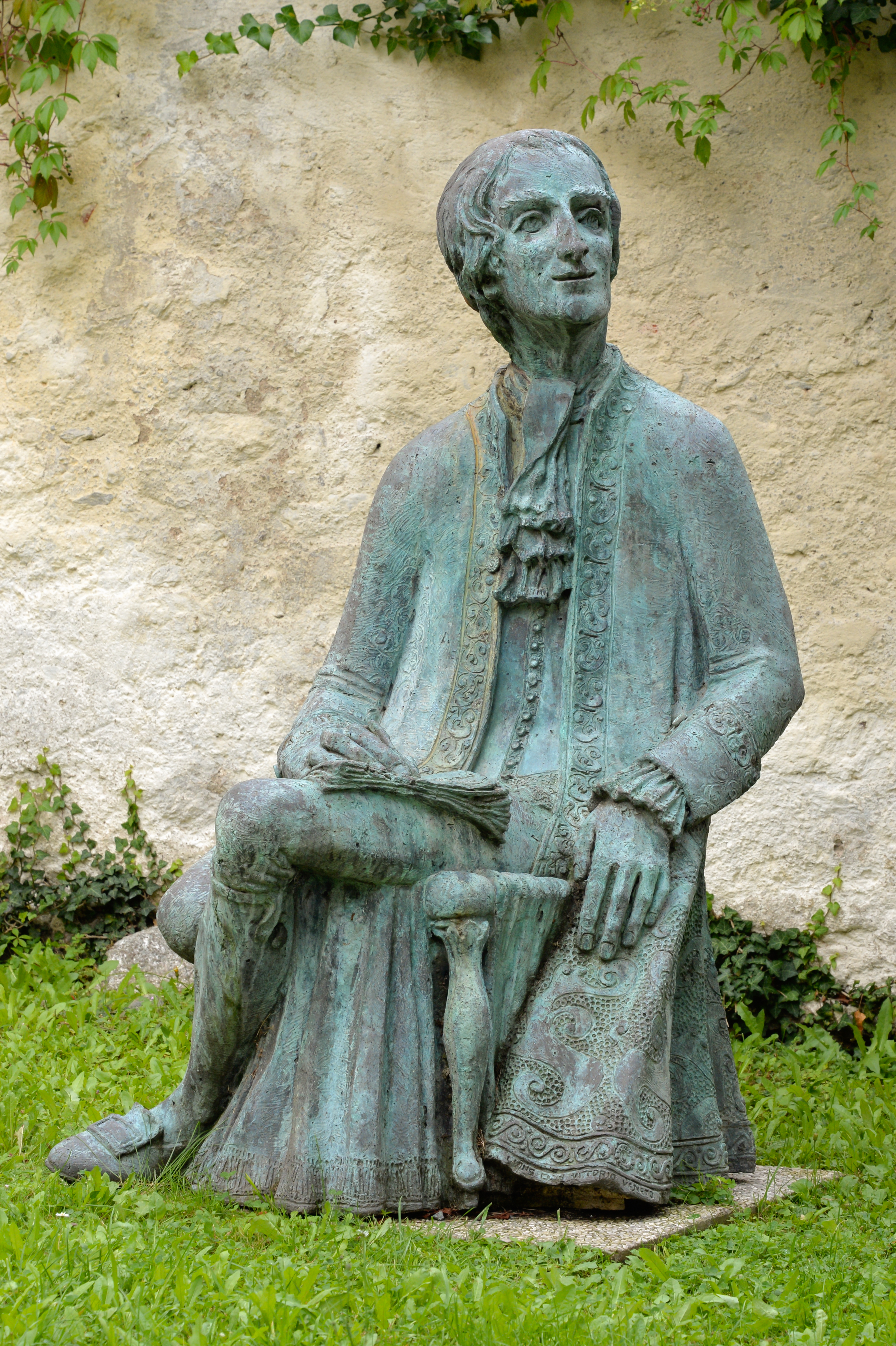 Sculpture of Lorenzo Da Ponte by Giorgio Igne (Sacile (PN)) on Stiftgasse, market town Millstatt, district Spittal an der Drau, Carinthia, Austria, EU